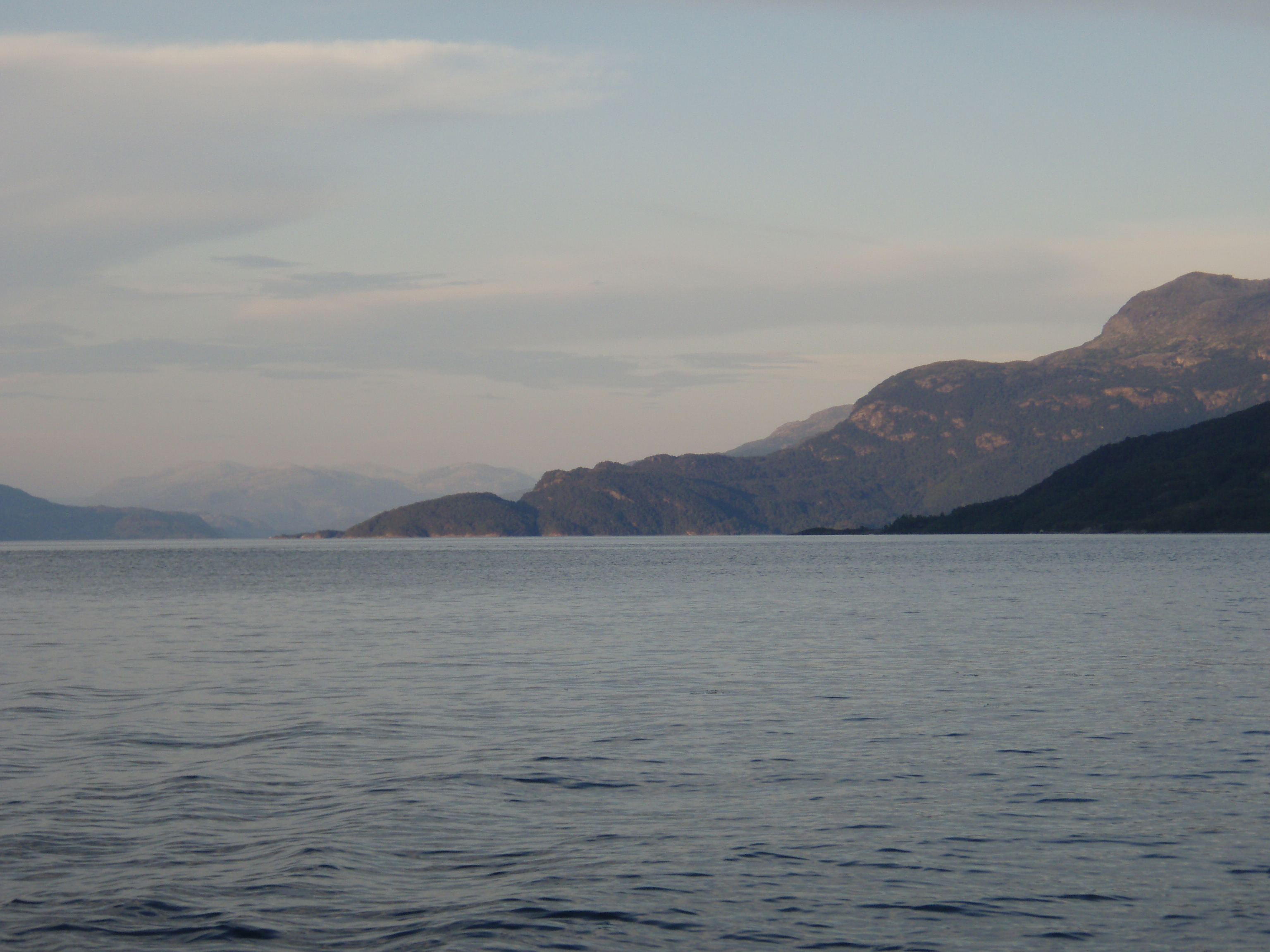 Picture from the Yrkjefjord